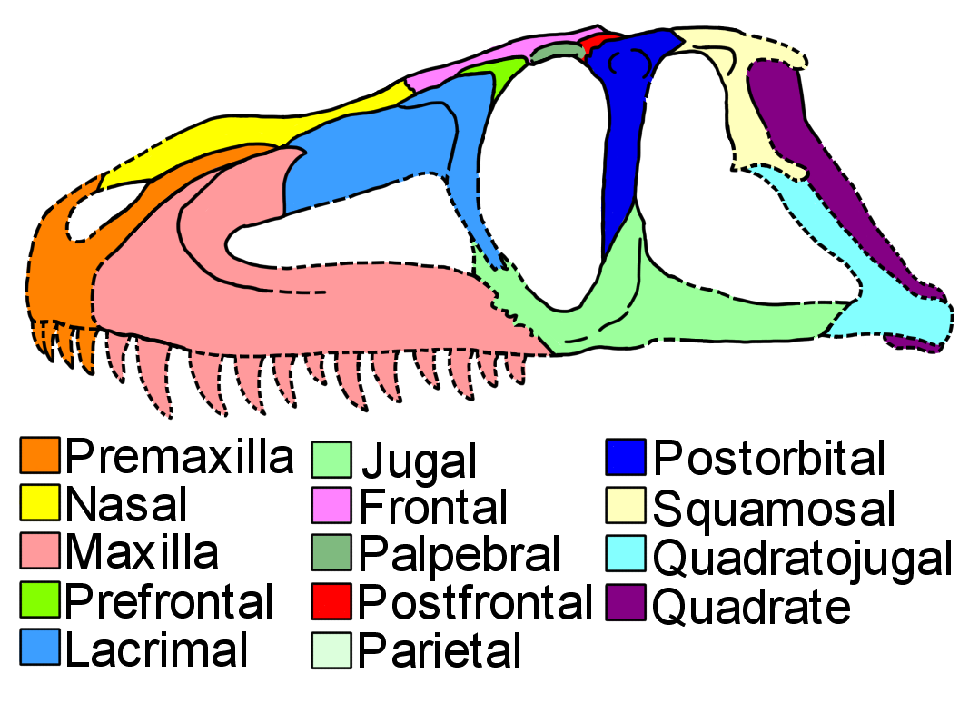 A color-coded skull diagram of Luperosuchus fractus. Mainly sourced from Nesbitt & Desojo (2017). Dotted lines indicate missing bone, which has been reconstructed based on Saurosuchus, Decuriasuchus, Batrachotomus, and Prestosuchus.